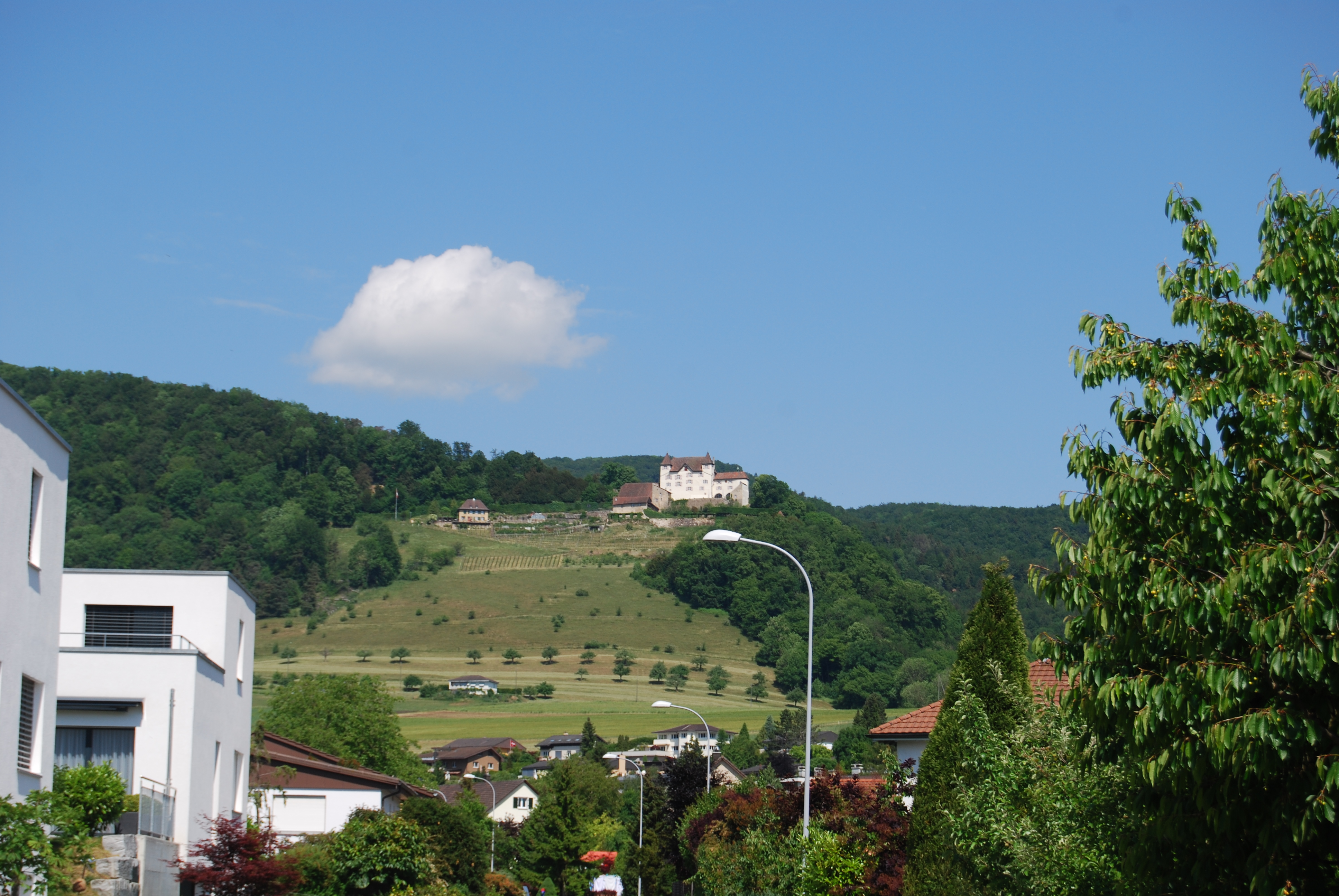 Castle Wartenfels, Lostorf, canton of Solothurn, Switzerland